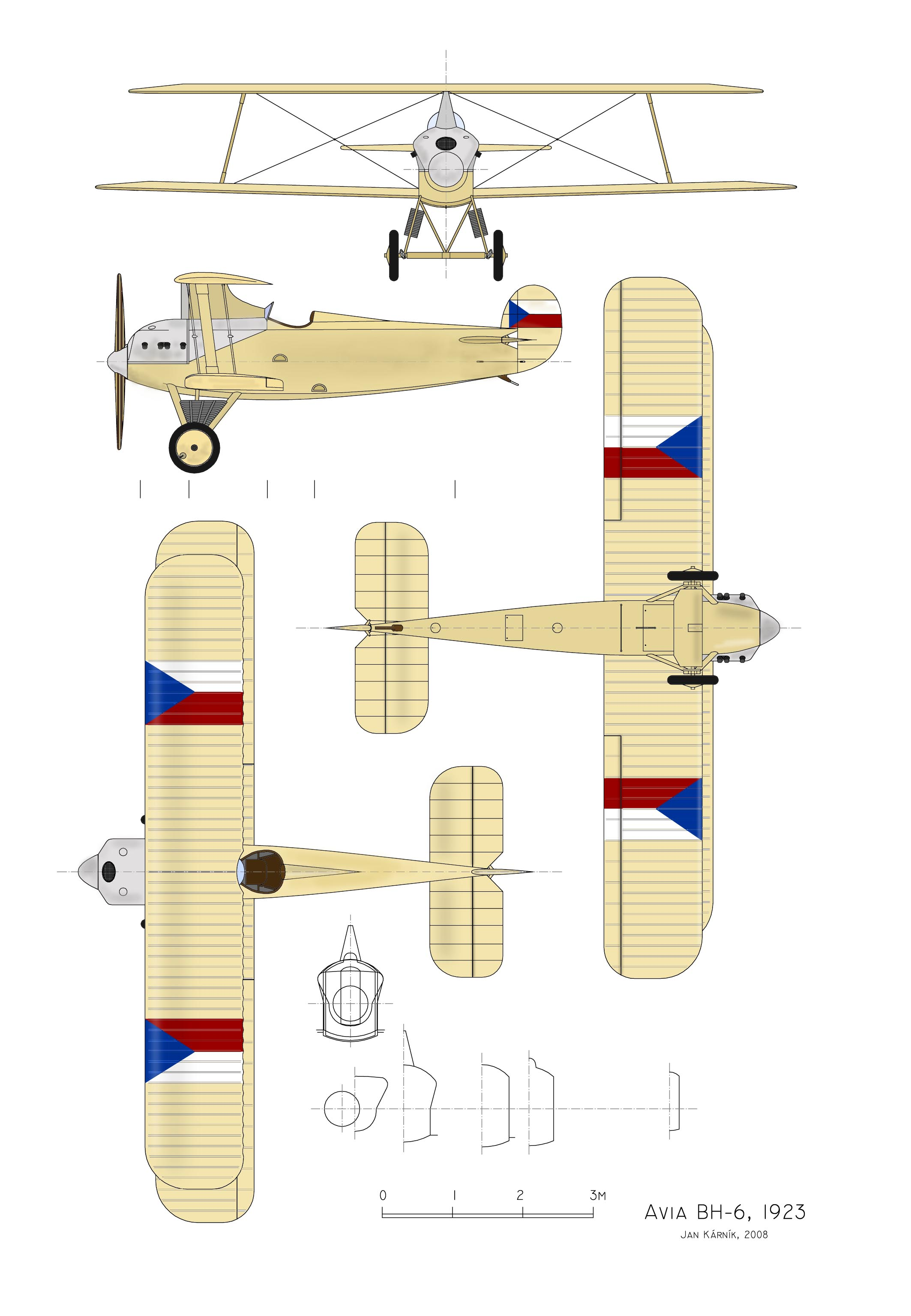 Avia BH-6 drawing